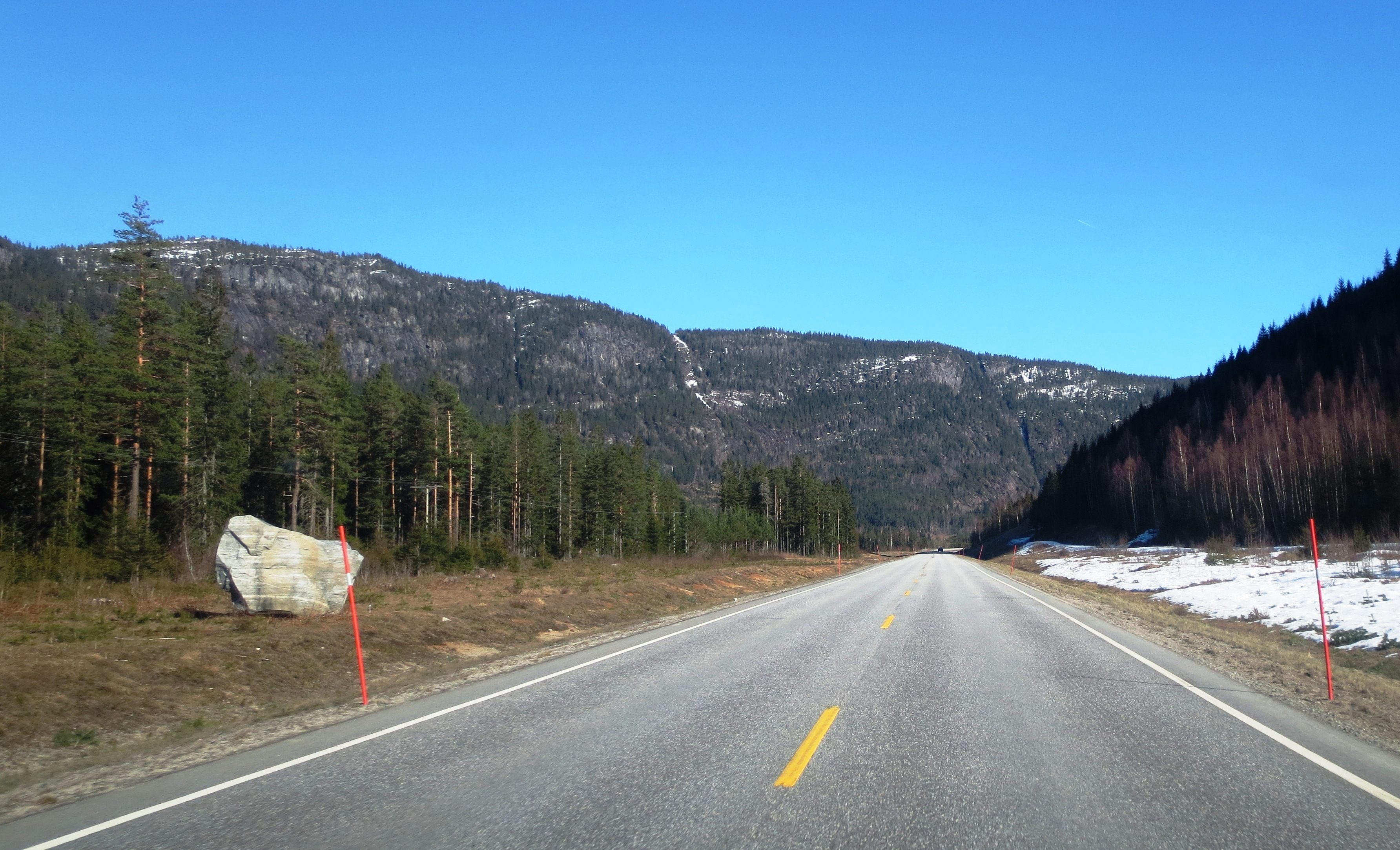 Farm image from the north-central part of the municiplity of Bygland. Setesdalen valley (river Otra), Aust-Agder county, Norway